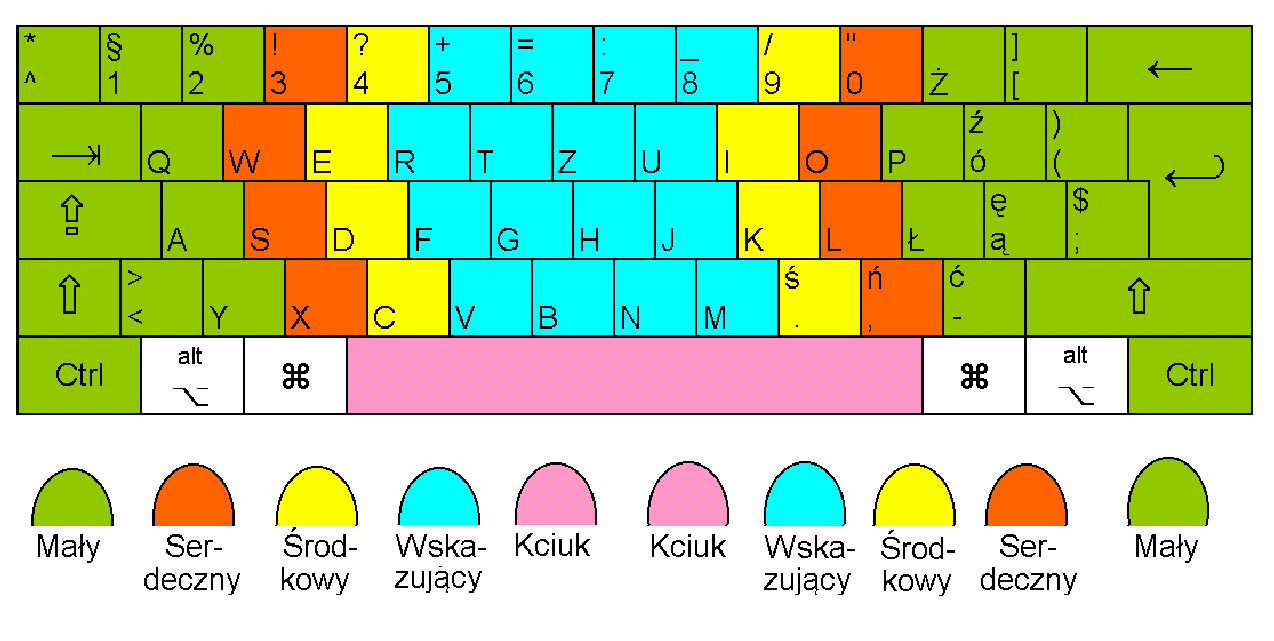 This is the polish Apple keyboard with an explanation for touch typing.